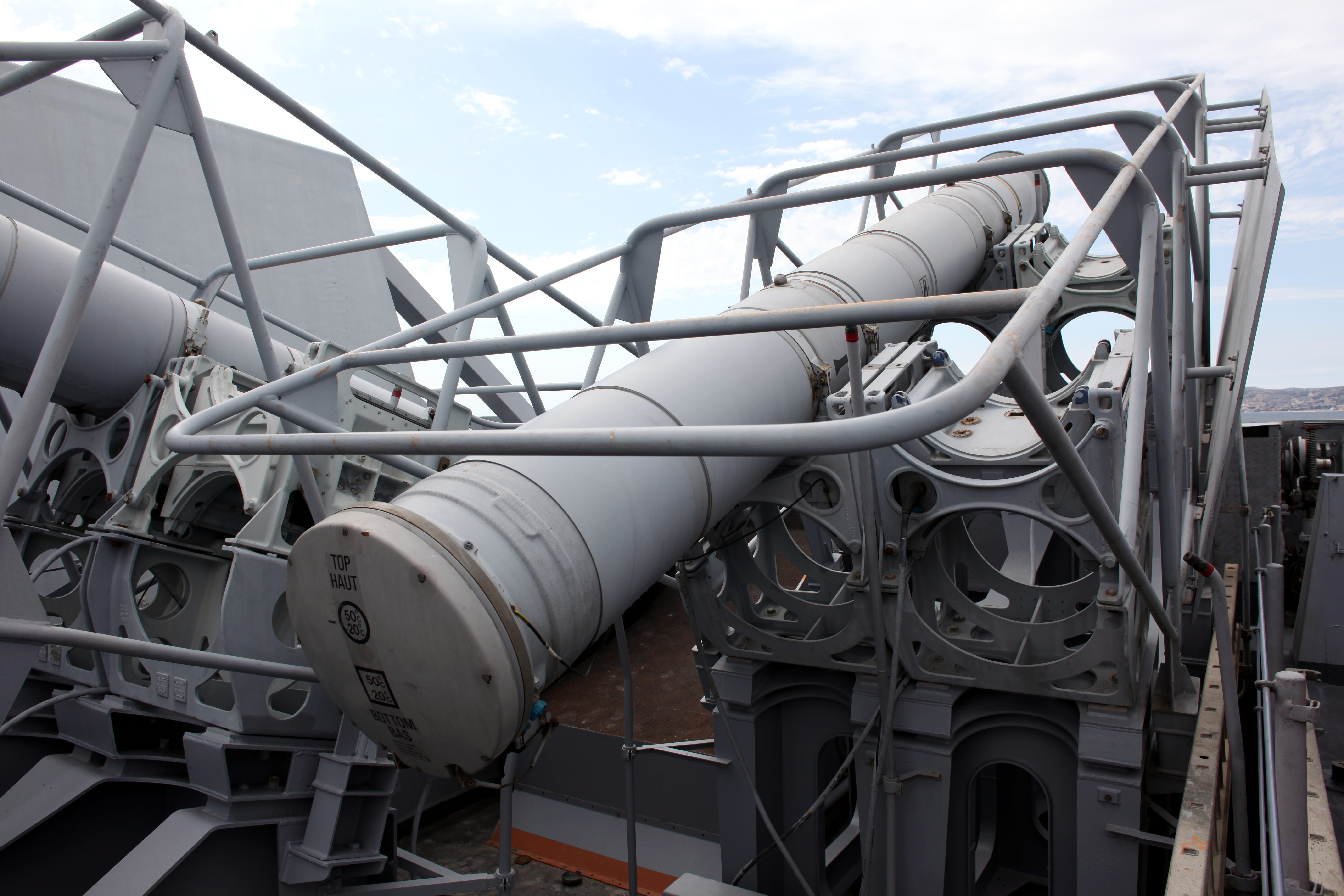 Exocet launcher rails of the stealth frigate Surcouf. The frigate is configured for peacetimes, thus only two of the eight slots are armed.